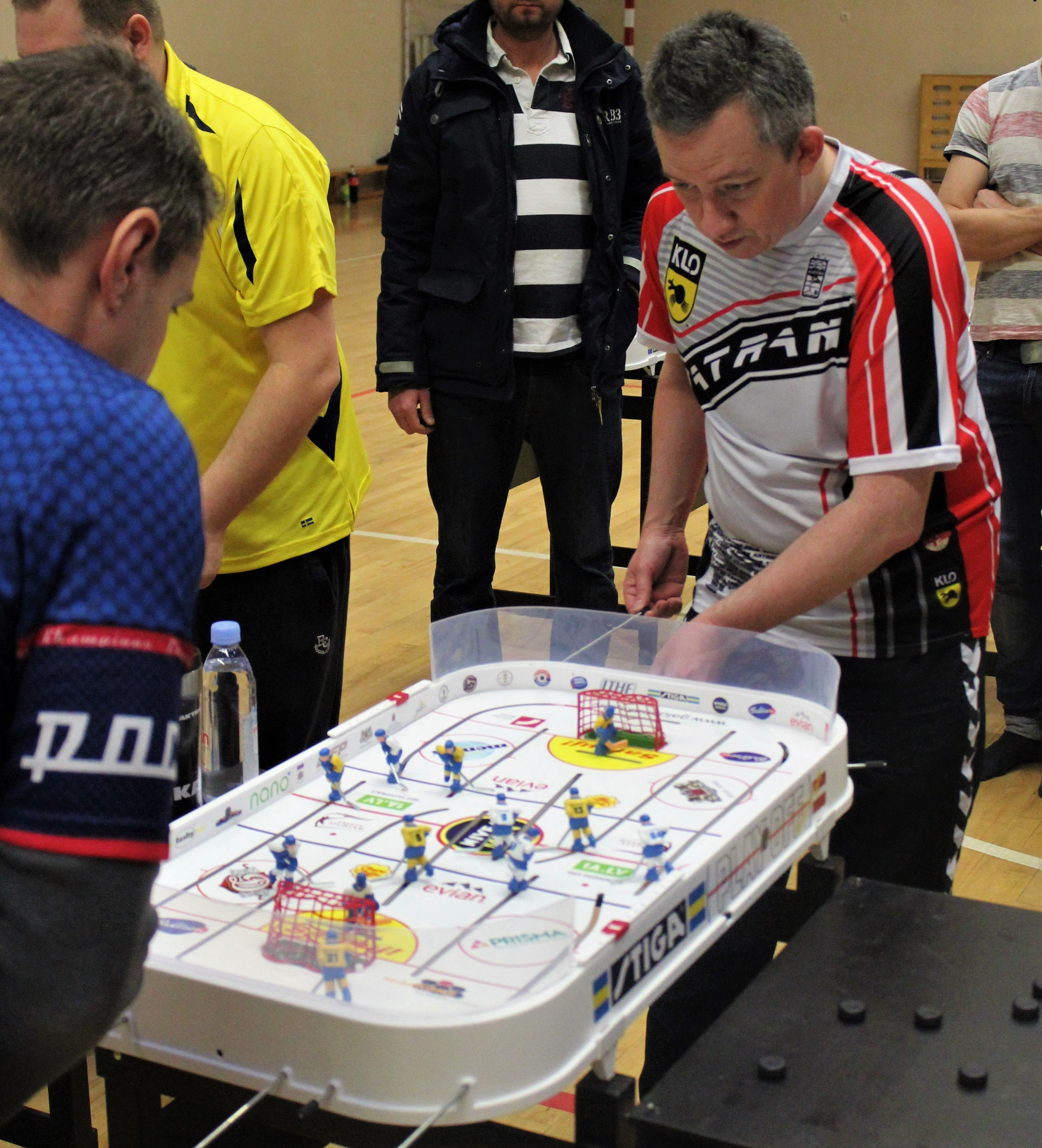 President ITHF Bjarne Axelsen (DNK) and president RTHF Alexey Titov (RUS) playing in Riga Cup 2017